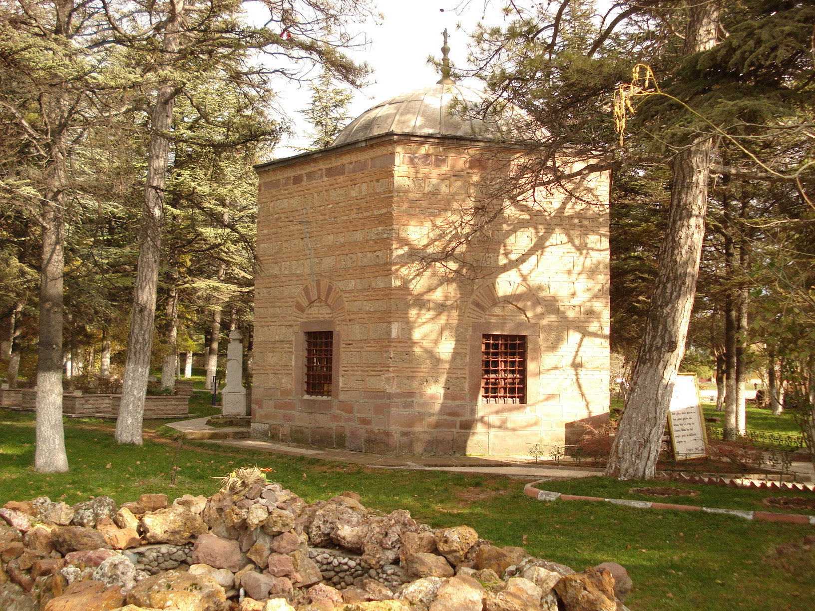 Ertuğrul Gazi's grave in Söğüt